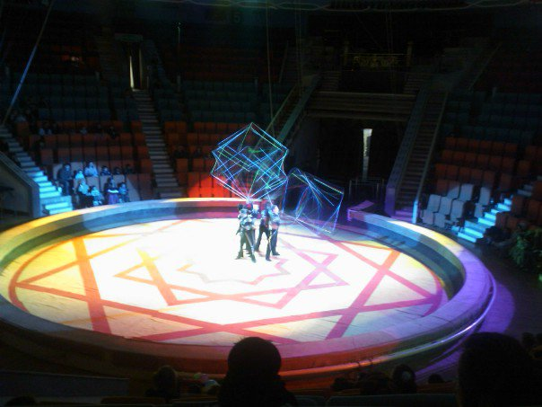 Turkmen circus on stage